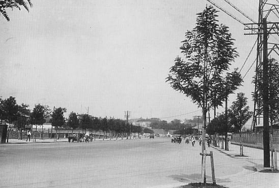 Otemachi circa 1925